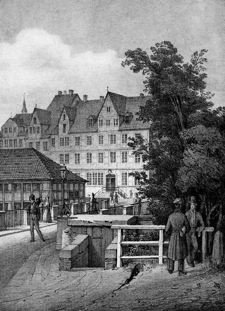 The poorhouse 1835 in Hanover. Lithograph by Rudolf Wiegmann.